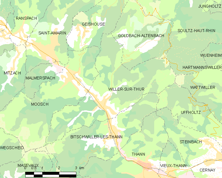 Map of French municipality